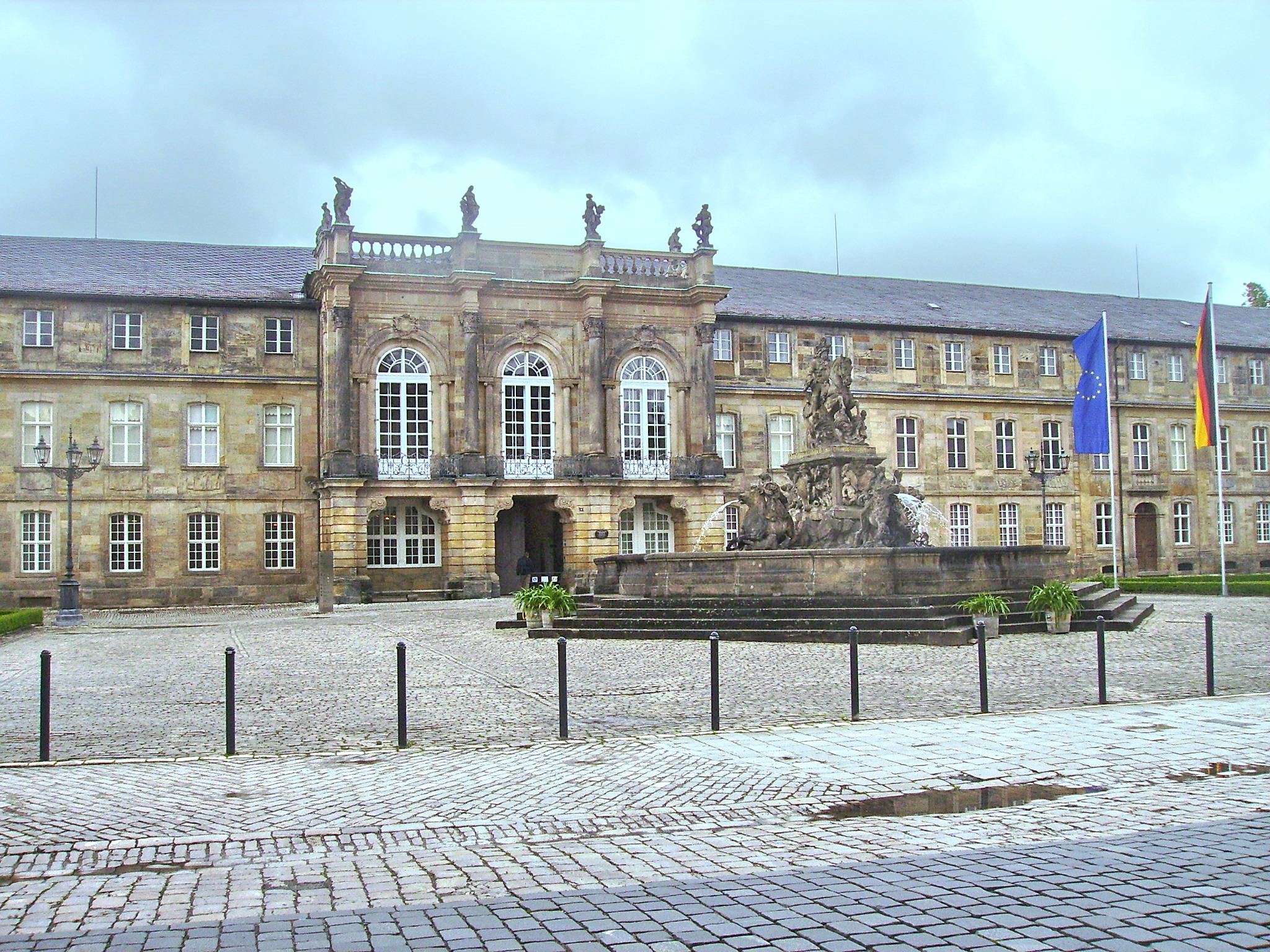 New Palace, Bayreuth